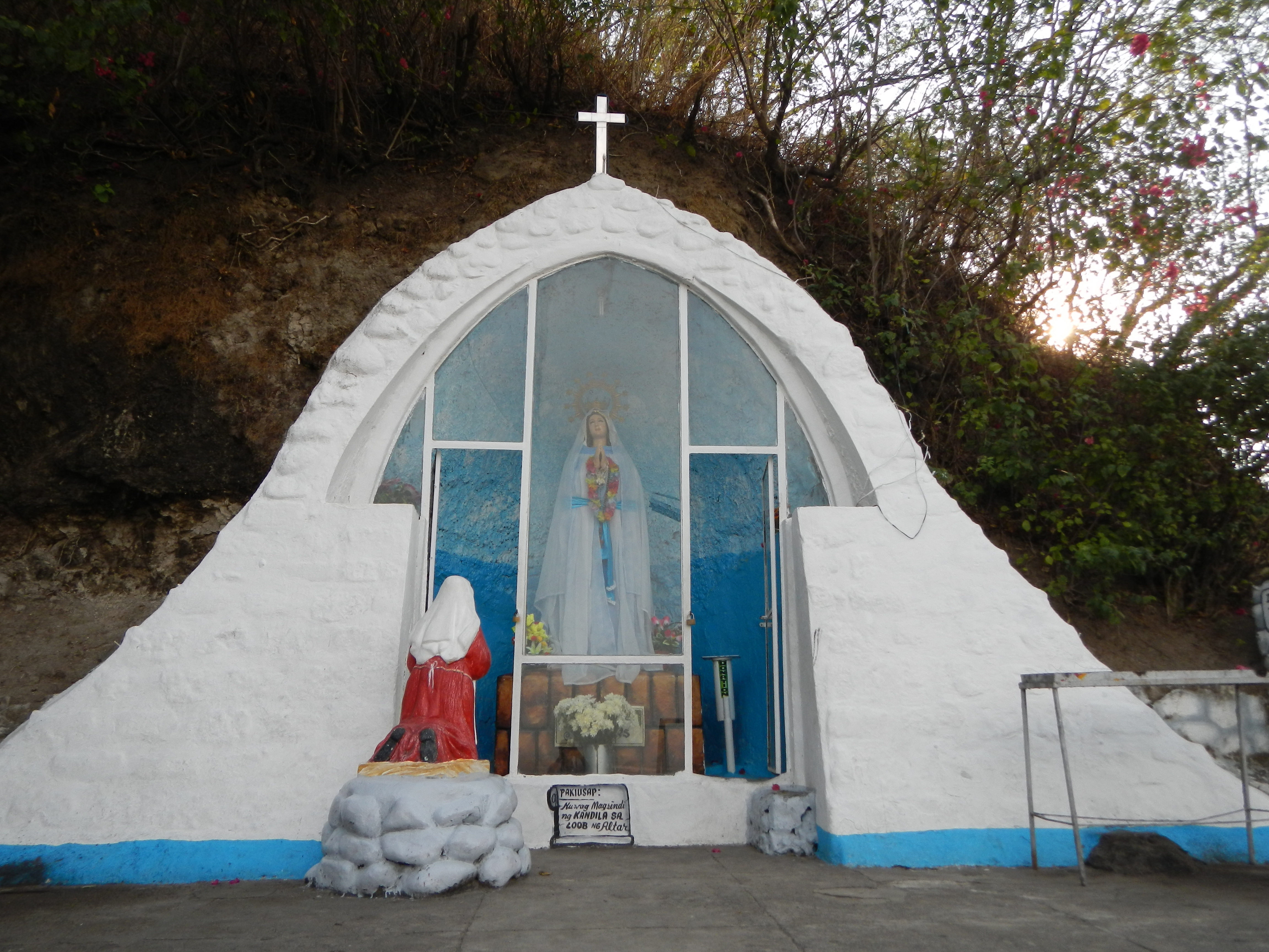 Grotto of Our Lady of Lourdes of Bamban - Dolores, Bamban, Tarlac[1][2] Bamban Hills: Site of the Grotto of Our Lady of Lourdes.[3] [4] Bamban Park / Lugay Park Sampalok – Panaisan road, Bamban, Tarlac This park has a 100-step stairway that leads to a grotto of the Our Lady of Lourdes. At its sides are bonsai farms and mini-restaurants.[5] [6] [7] Bamban Park The park was carved along the hilly area near the national highway in Tarlac and is quite visible from the road with its imposing grotto of Virgin Mary pedestalled on a hill. One has to hurdle a 100-step stairway before reaching the grotto. The area is characterized by stretches of roadside mini-restaurants and bonsai farms - all catering to commuters bound for the north. People visit the place to pay homage to the Blessed Mother or do mountain trekking on the side. [8] Barangay Pag-asa[9] [10] Geographical Information for Bamban - Latitude: 15° 21' 50" N Longitude: 120° 34' 25" E Population range of place: is between 10,000 and 20,000 Country ISO code: PH[11] Bamban, Tarlac[12]is a second class municipality in the province of Tarlac, Philippines. According to the 2010 census, it has a population of 62,413 people. [13] The municipality of Bamban is the southernmost gateway of the melting pot province of Tarlac in the Central Plain of Luzon in the Philippines. It, however, is still predominantly Kapampangan, like the Municipalities of Capas and Concepcion.[14] It was in 1873 when Bamban was politically transferred from the province of Pampanga and became a town of the province of Tarlac. Don Manuel Sibal was its first “Kapitan” or head. Roads were established and a wooden bridge connecting it to Pampanga was erected in 1888.Tinaguriang mini-Jerusalem, mabibisita sa Bamban, Tarlac Mar 20, 2013[15] Land Area: 251.98 km² ZIP Code: 2317 Coordinates: 15°14'56"N 120°28'30"EBAMBAN: GATEWAY TO TARLAC [16]May 2013 Elections List of Local Candidates In Bamban, Tarlac